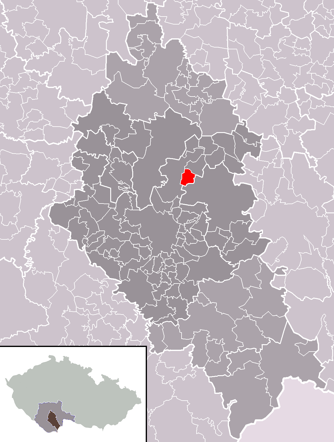 Location of Chotýčany municipality within České Budějovice District and administrative area of České Budějovice as a Municipality with Extended Competence.